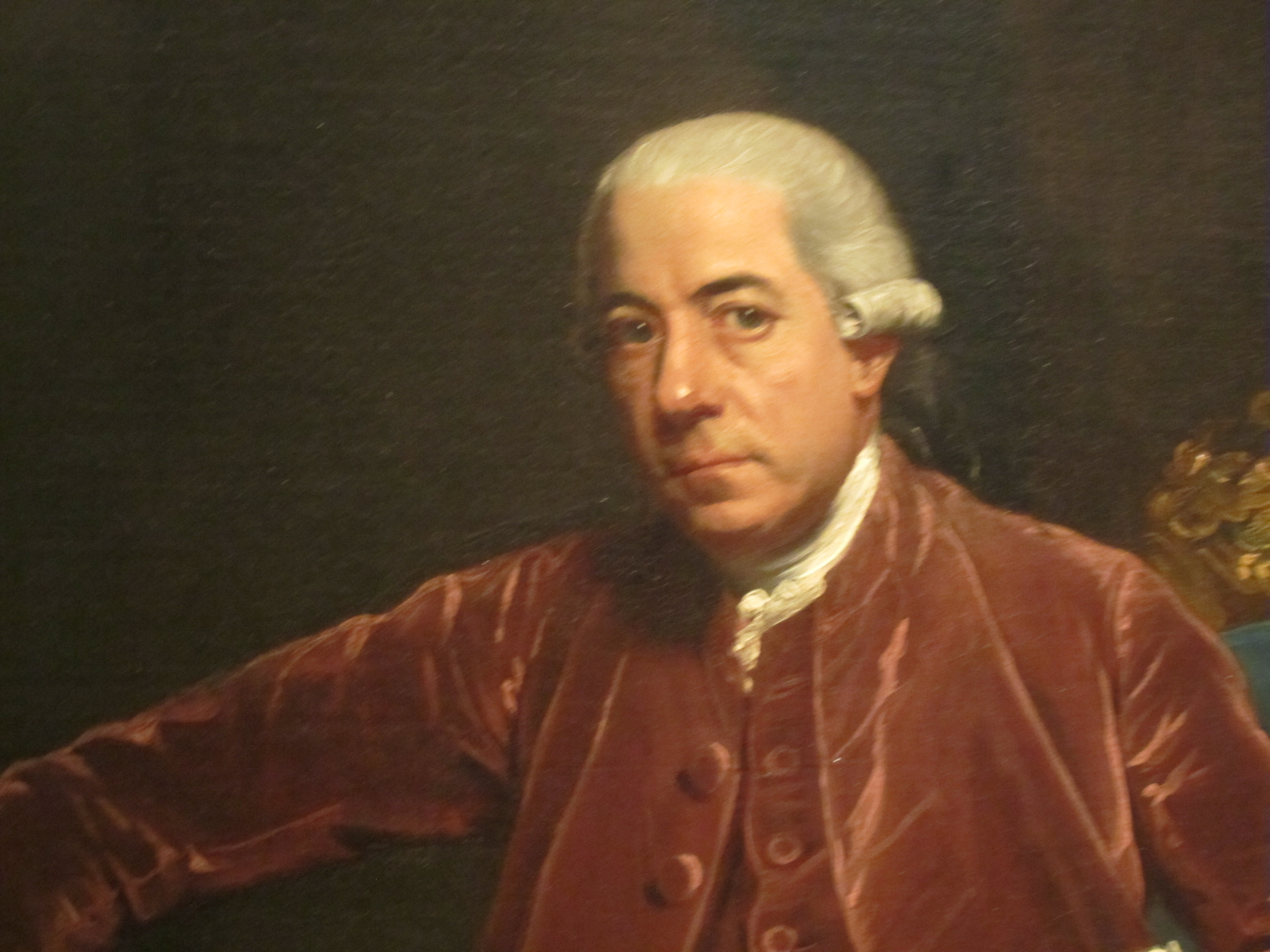 I took photo of Henry Laurens in National Portrait Gallery, using a Canon camera. Public domain.